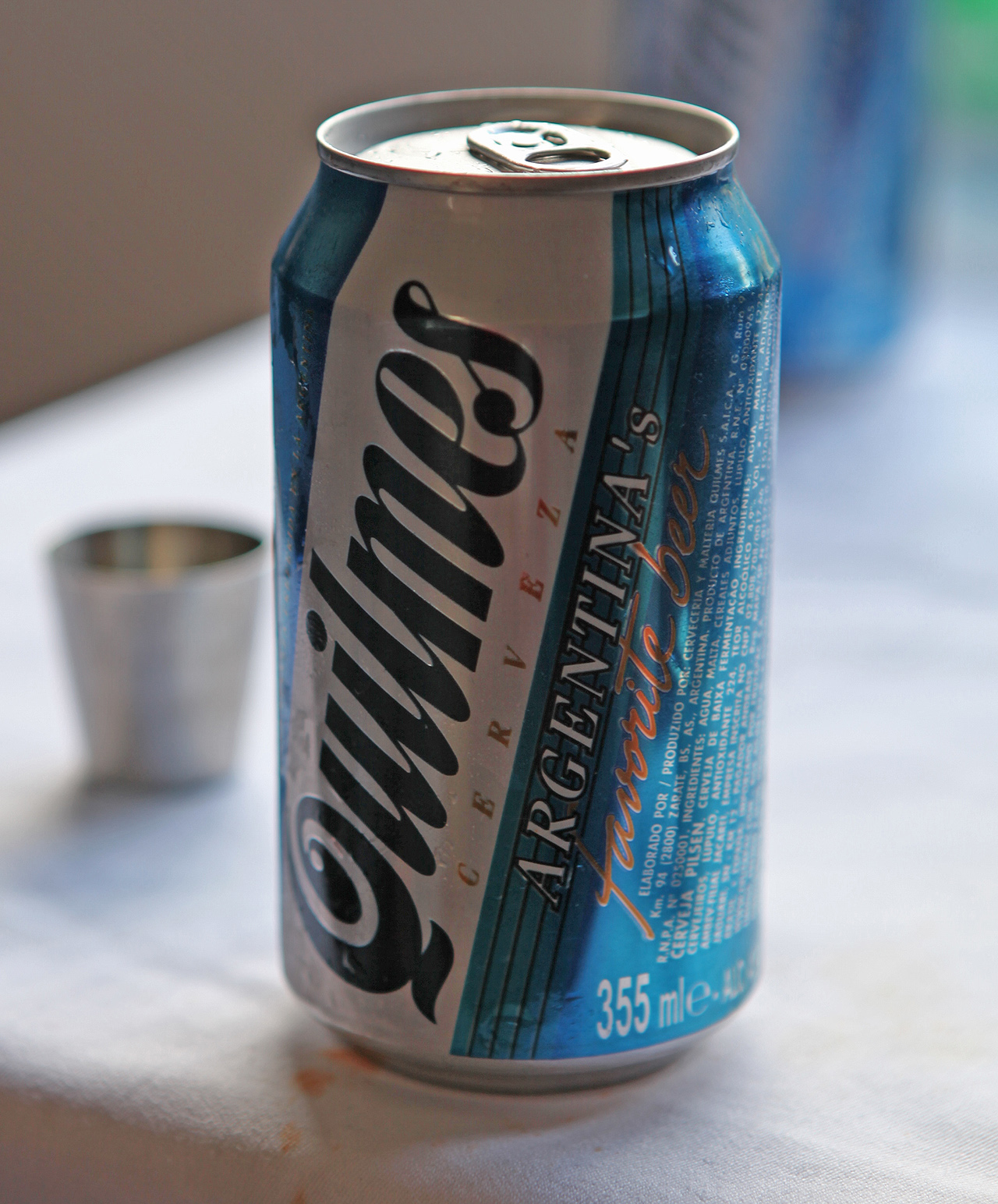 Quilmes Beer can sold in North Korea. This beer from Argentina is served in the train from Pyongyang to Beijing. It was always interesting to check the supplier labels on the food in DPRK department stores. You can find food from Vietnam, Laos, Burma, New Zealand or even Argentina.